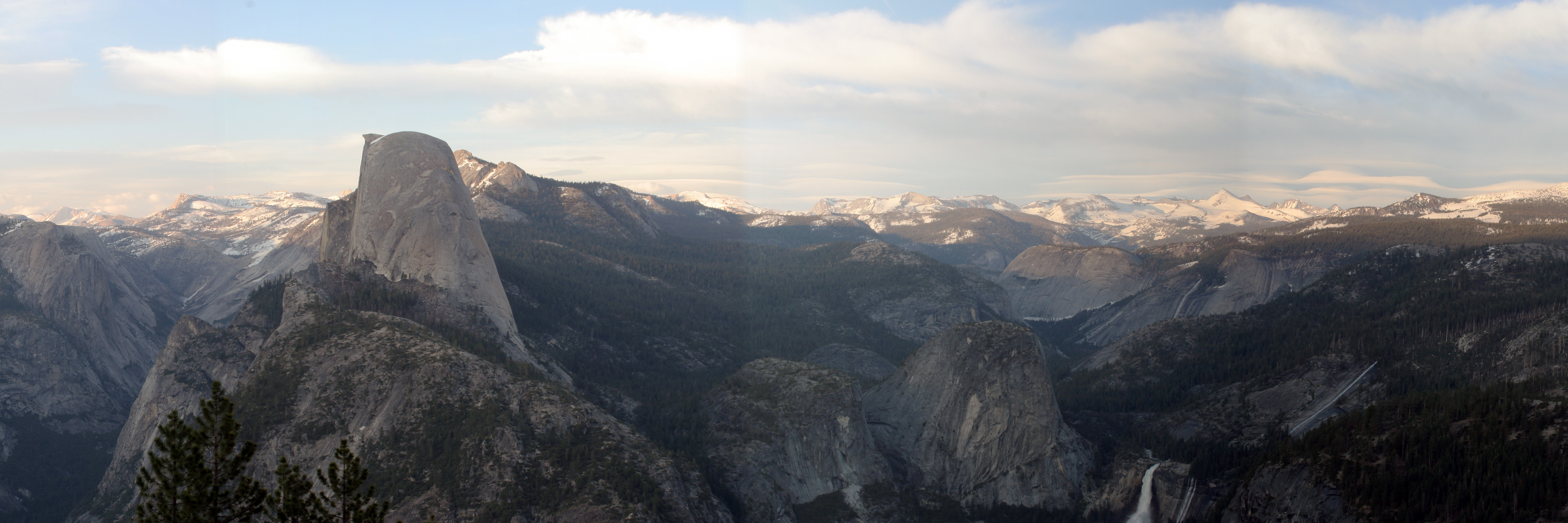 Panorama of Half Dome (left) from Glacier Point.